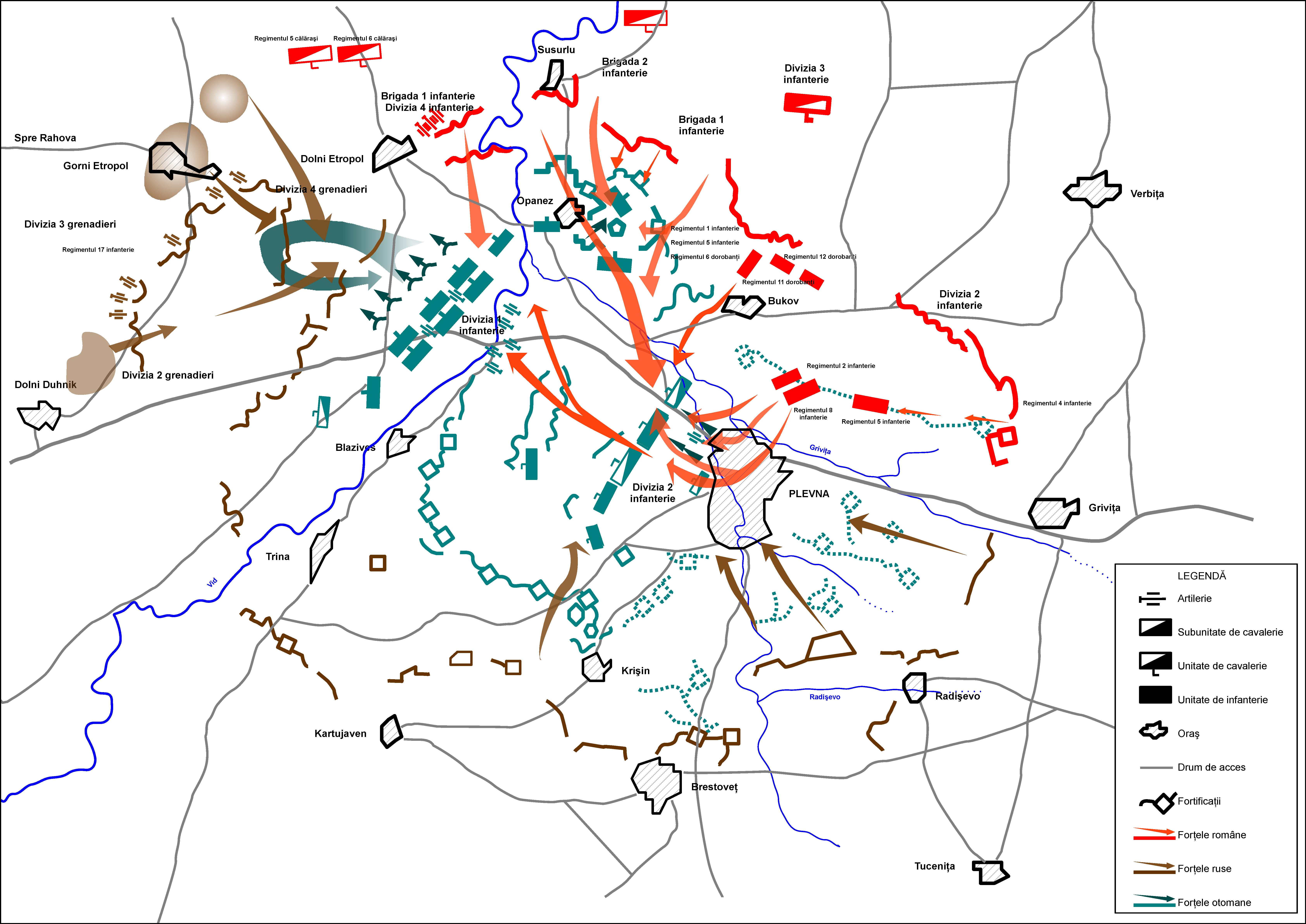 Final phase of the siege of Plevna